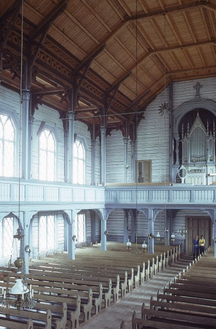 Interior of Luhanka Church in Luhanka, Finland.